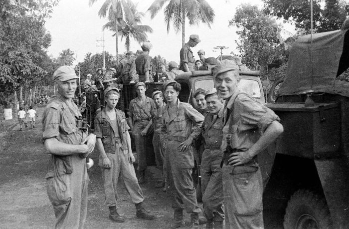 A military column during the first police-action